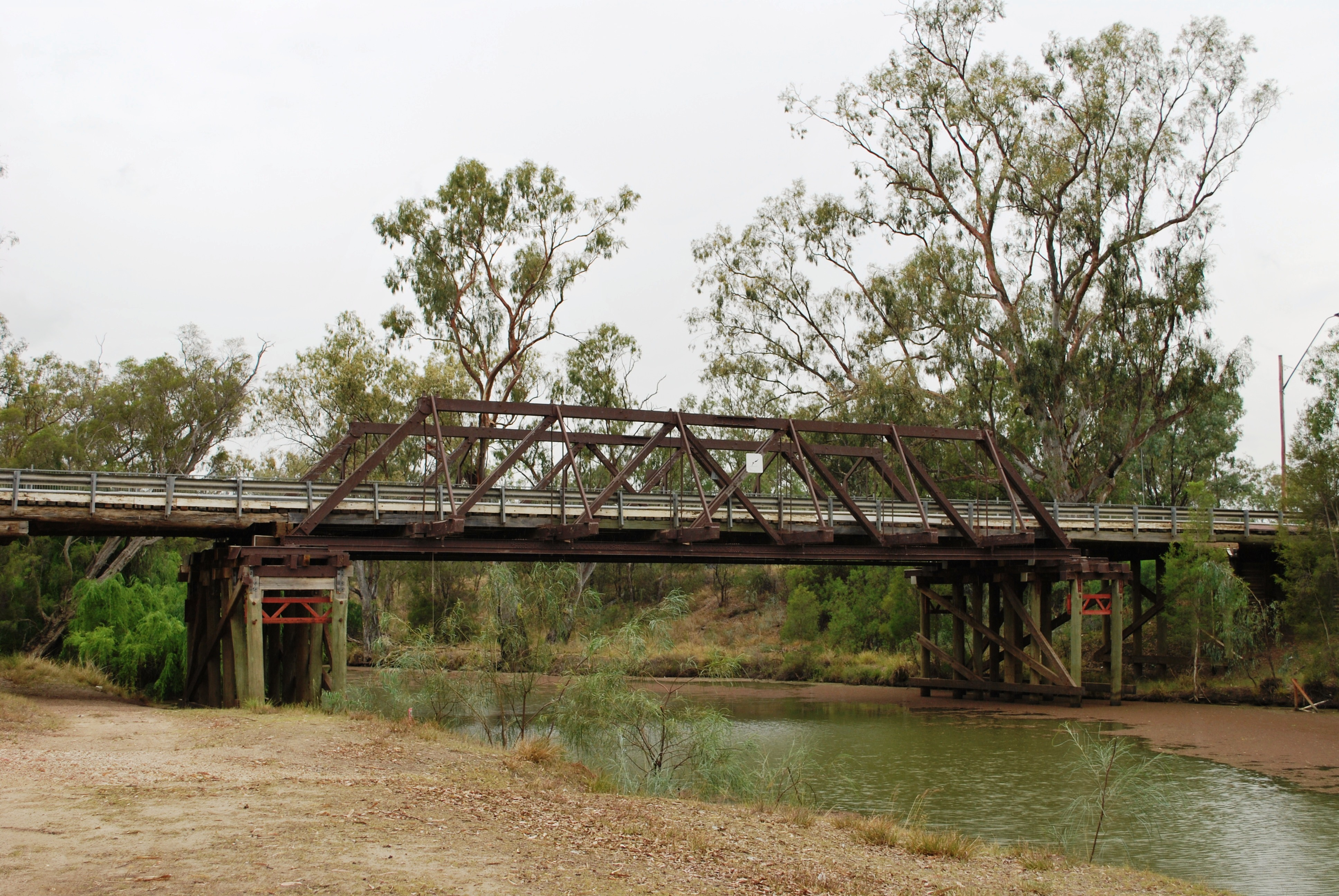 The bridge over the Barwon River (New South Wales) at Mungindi, New South Wales, looking upstream. The river forms the state border with Queensland on the left bank and New South Wales on the right.